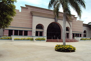 Front view of the Guayama Convention Center.